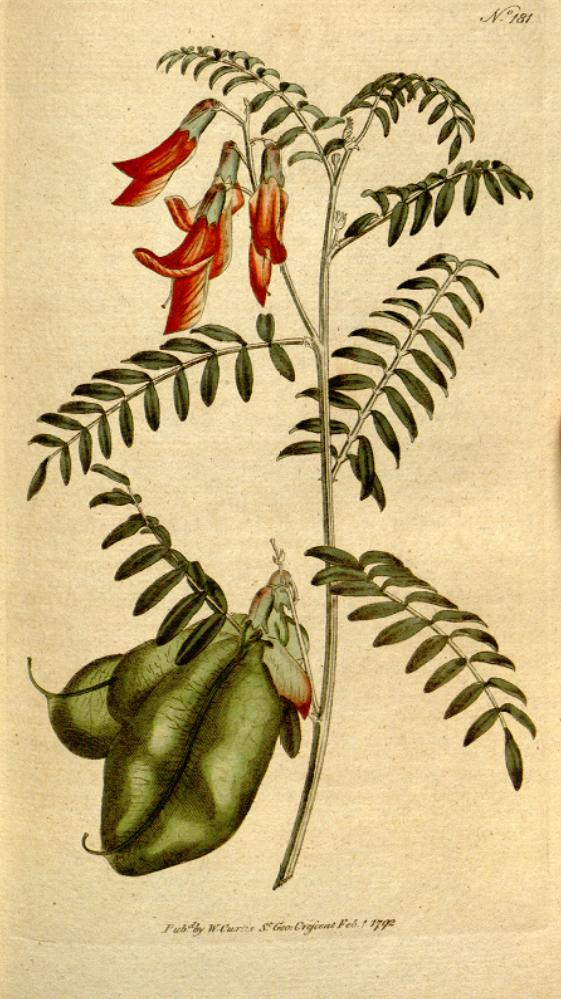 Illustration of Lessertia frutescens (now Sutherlandia frutescens)